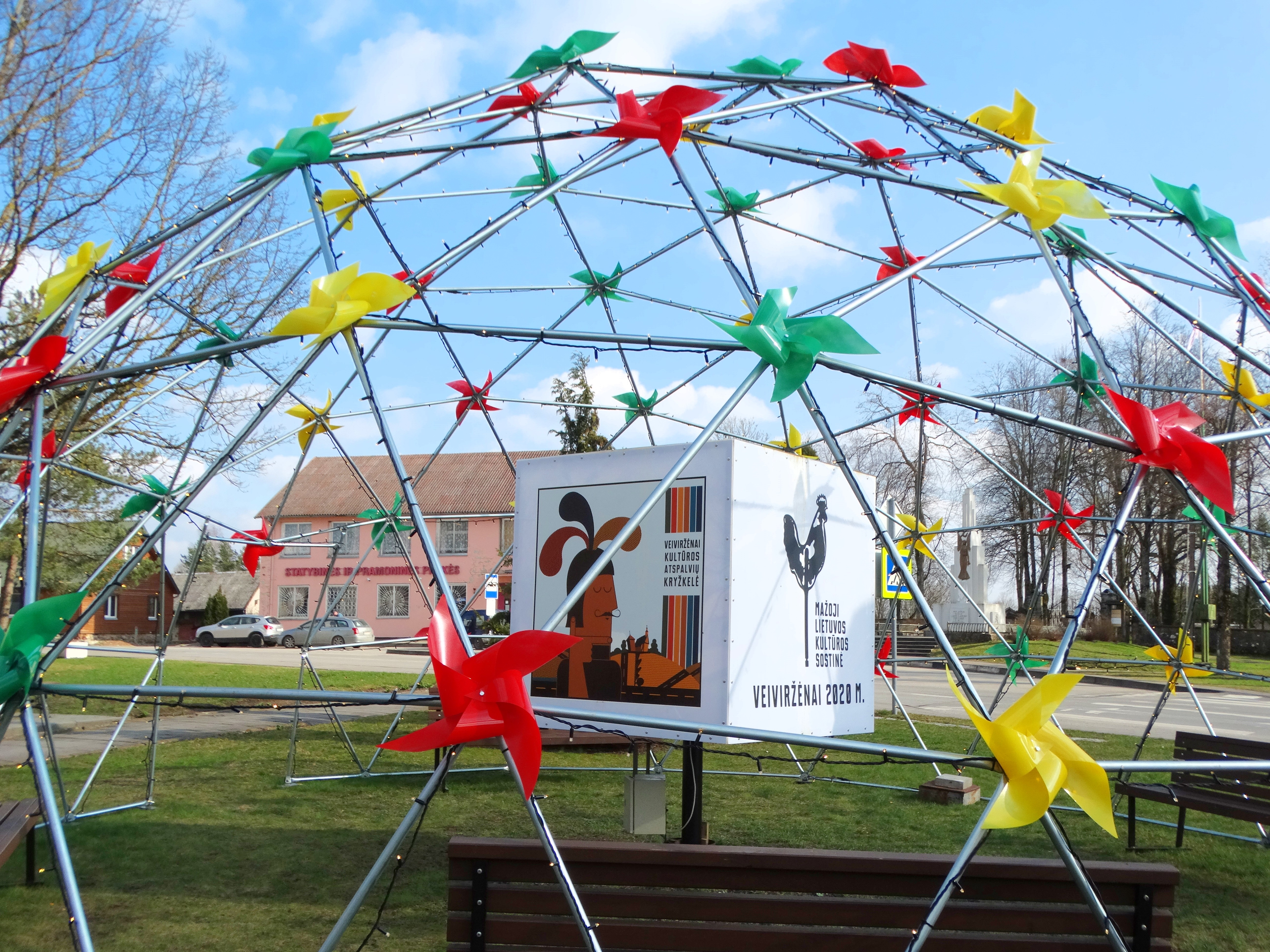 2020 cultural capital, Veiviržėnai, Klaipėda District, Lithuania